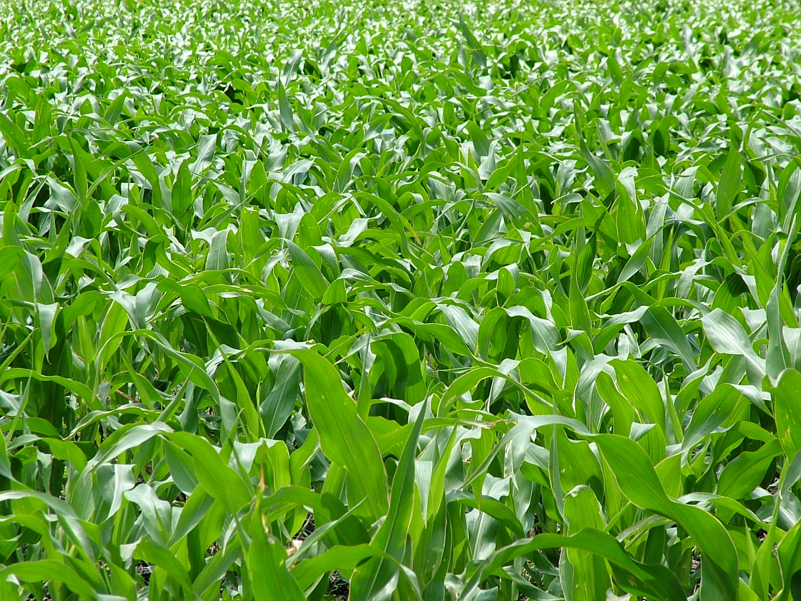 Cornfield in South Africa.